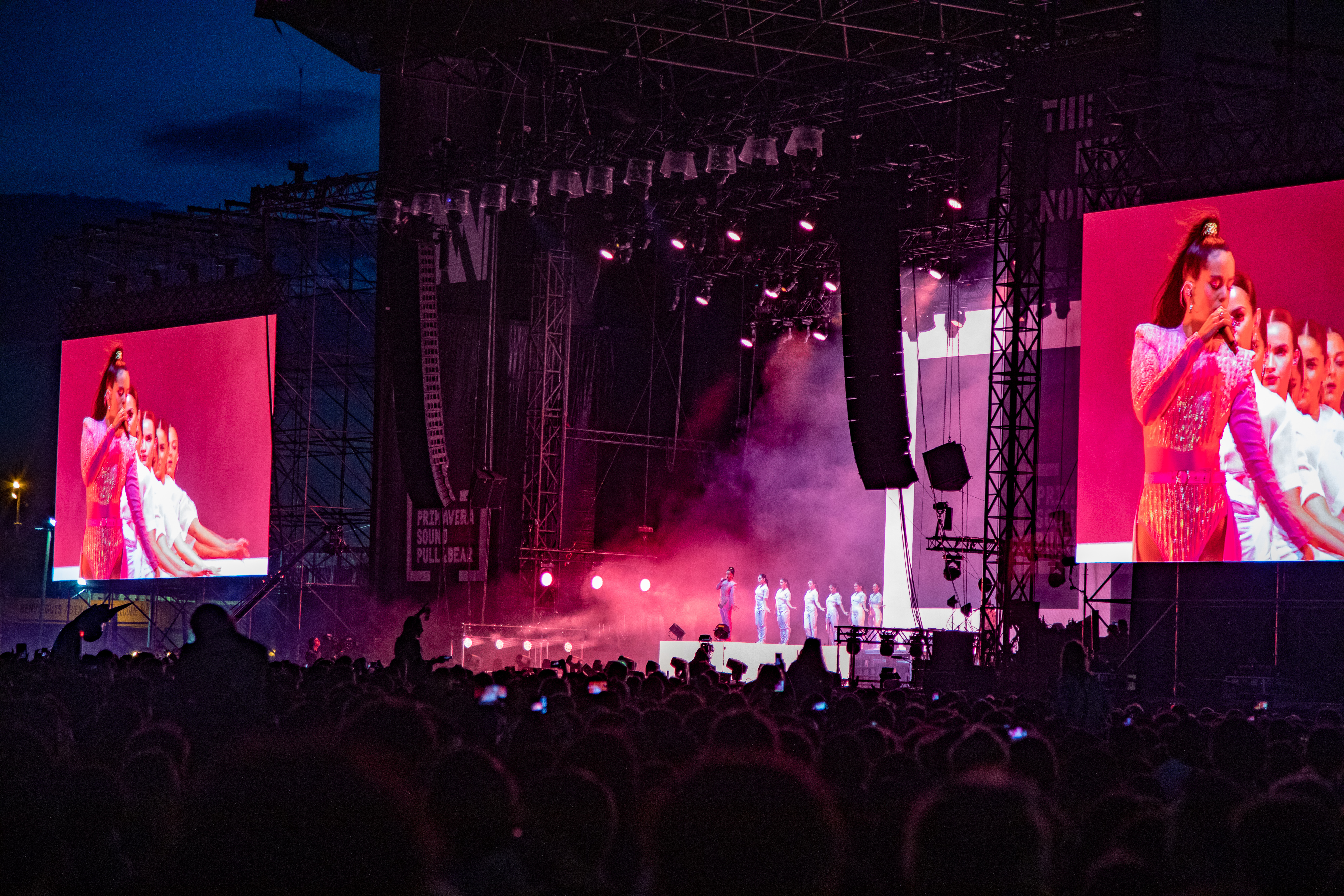 Rosalia performing at Primavera Sound 2019.